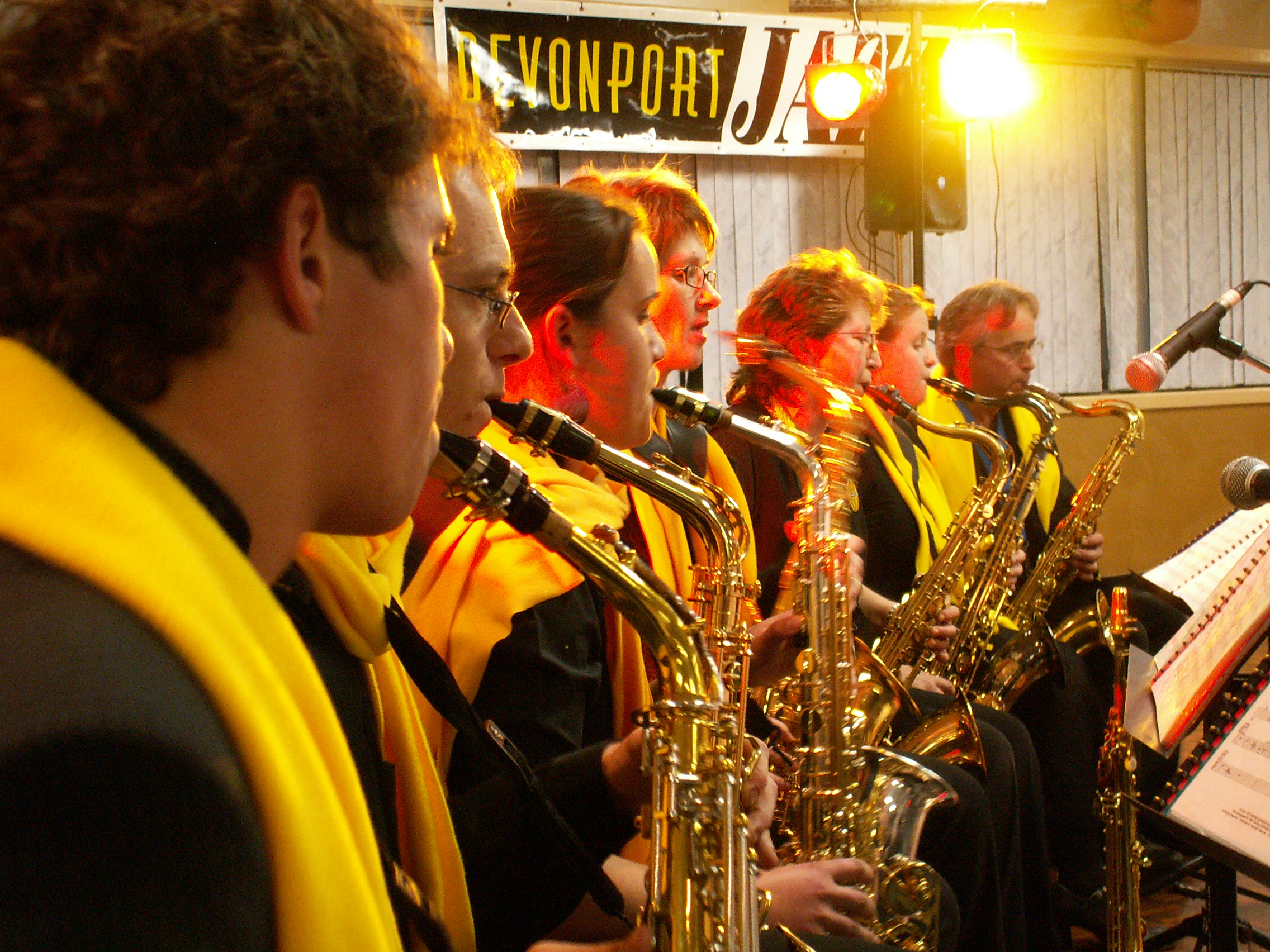 Grand Central Big Band